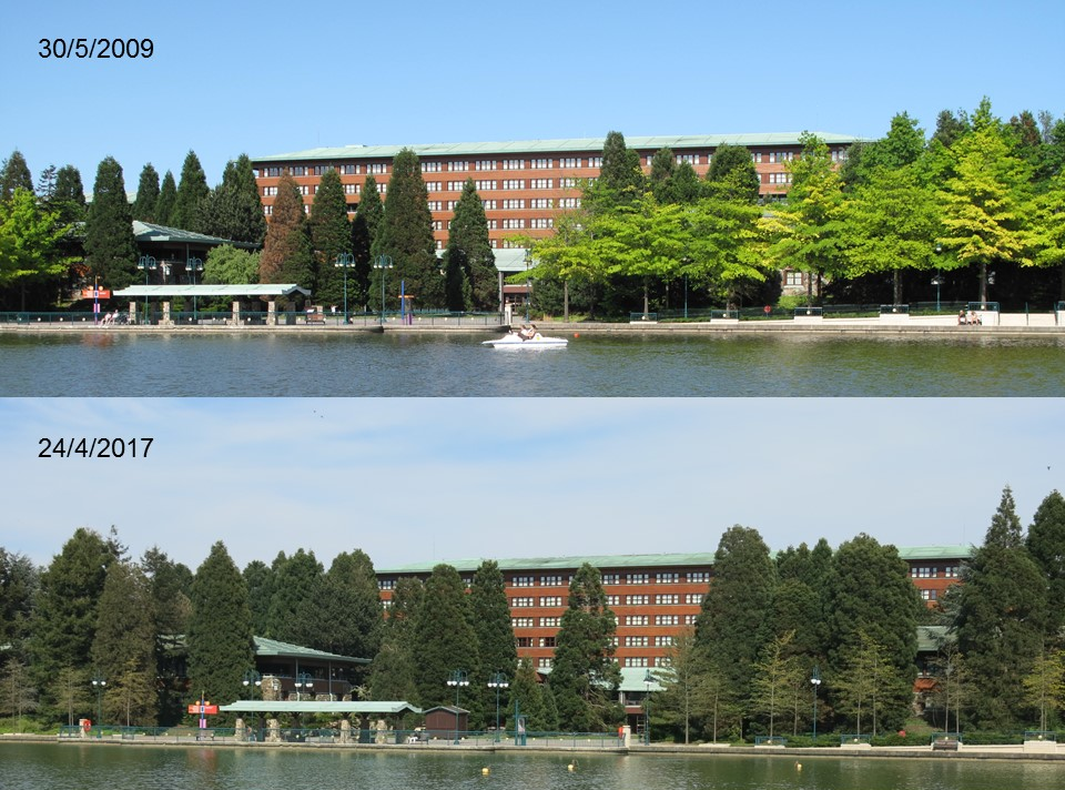 Sequoias of the hotel Sequoia lodge in 2009 and in 2017, France.